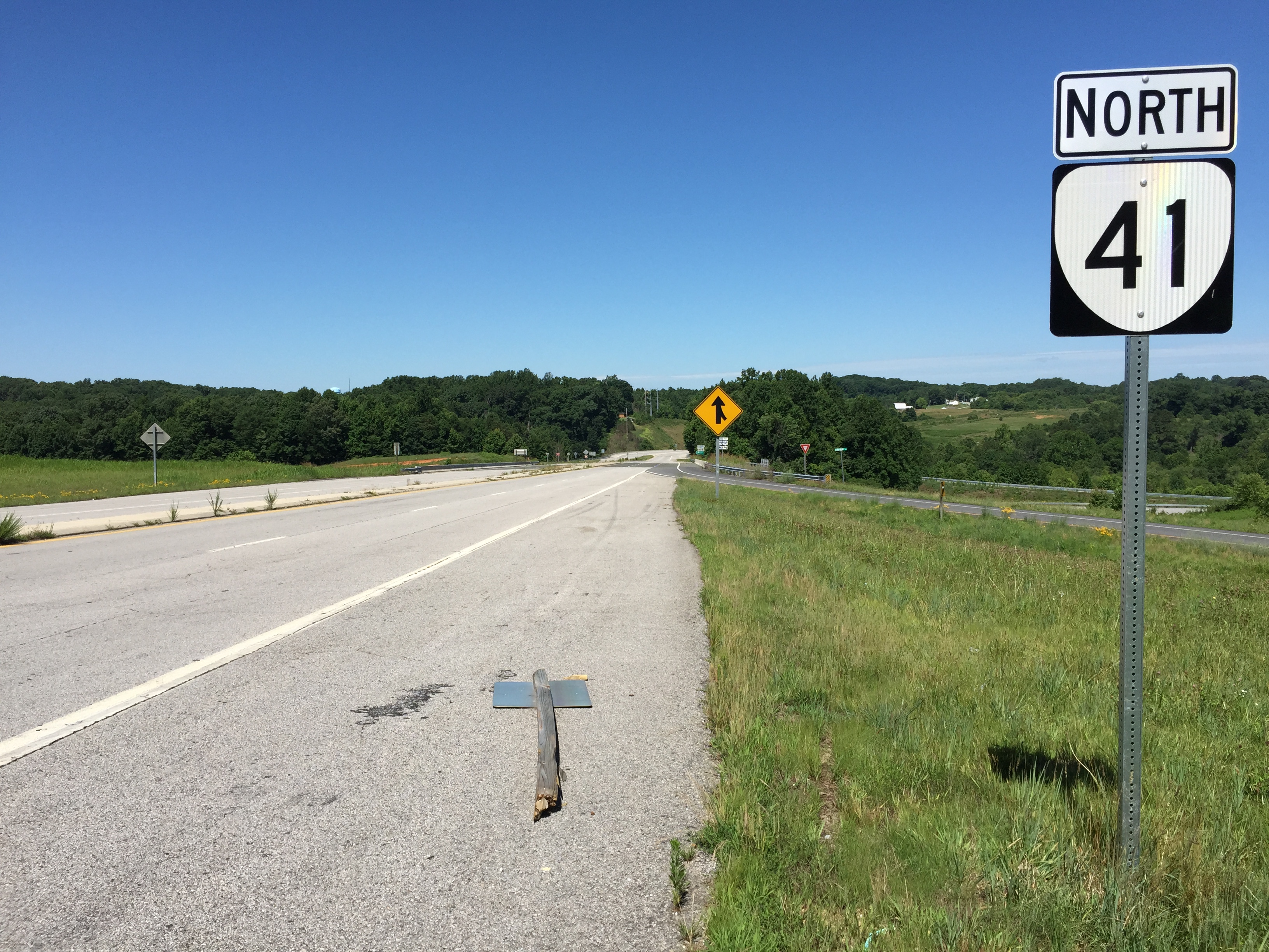 View north along Virginia State Route 41 (Franklin Turnpike) at U.S. Route 29 (Danville Expressway) just northeast of Danville in Pittsylvania County, Virginia